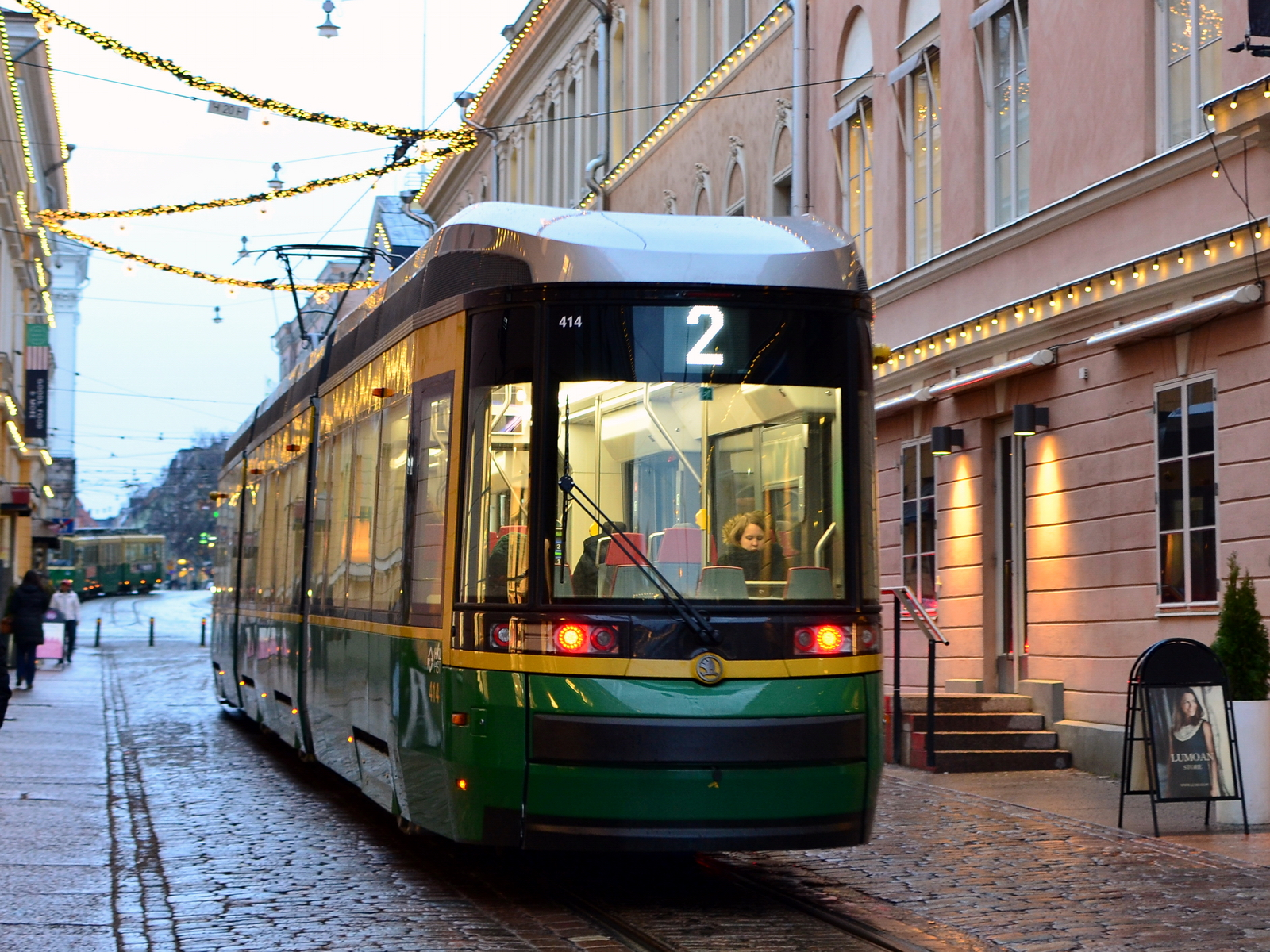 MLNRV III (Car #414) Transtech Artic (tram) in Helsinki